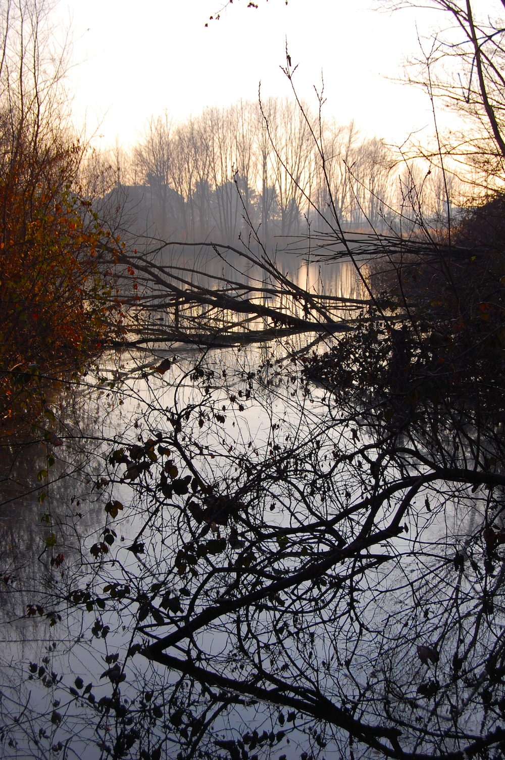 Bosco in Città lake view Milano.